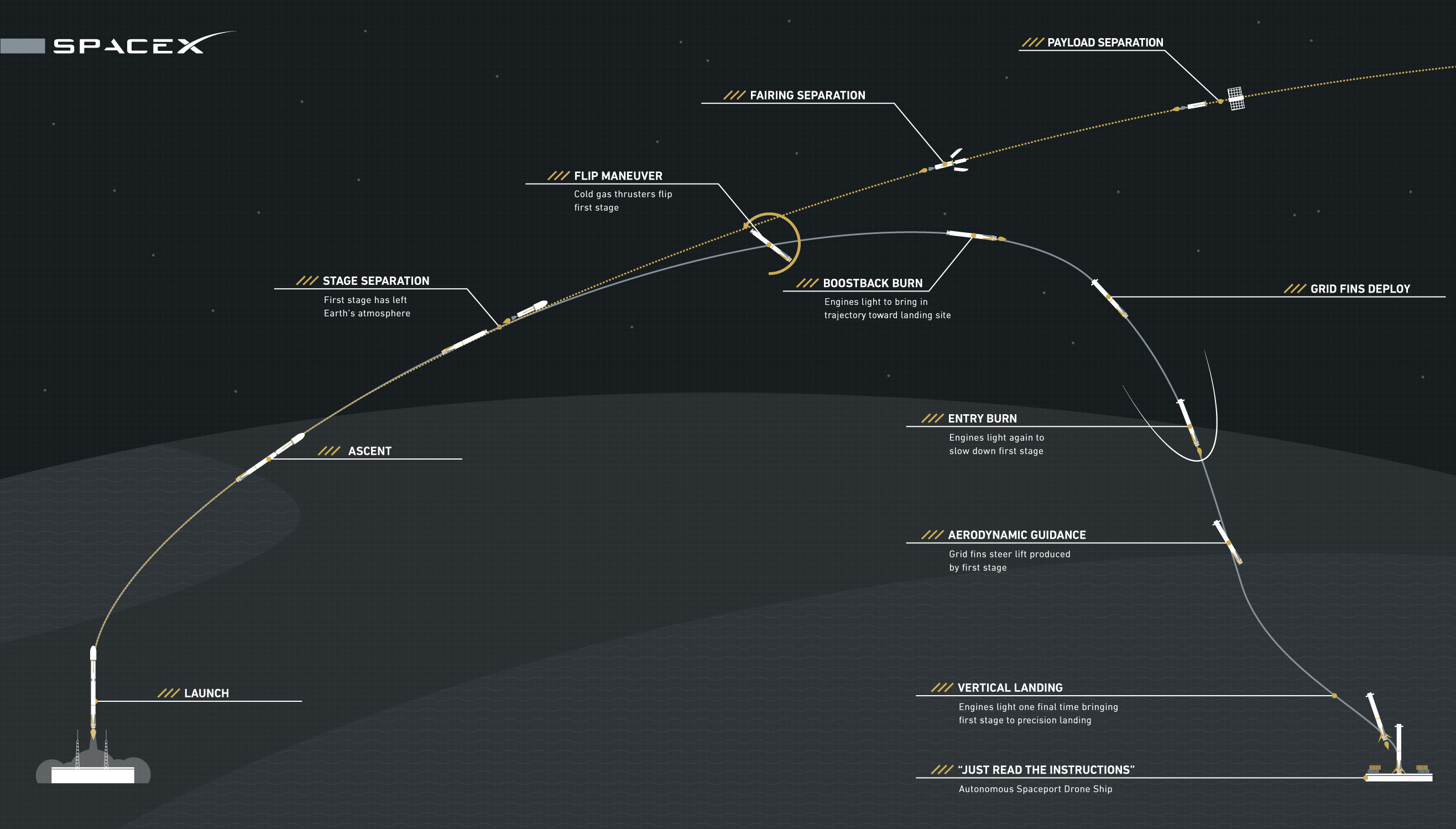 Wondering how Falcon 9's first stage will attempt to fly back to Earth on our next launch? The next attempt to land will take place during the launch of Cargo Dragon's CRS-7 mission to the International Space Station, currently slated for June 28.